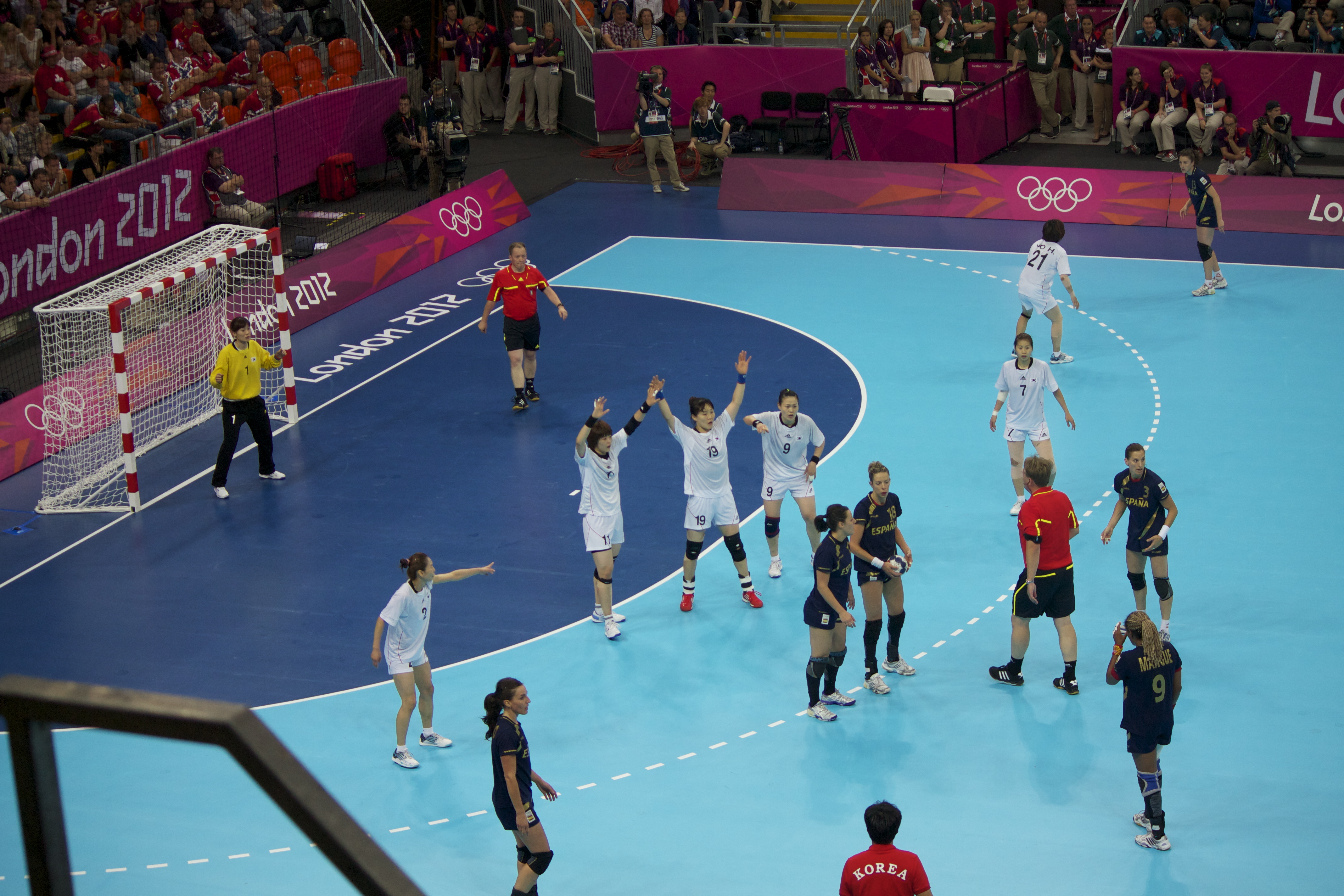 South Korea vs. Spain